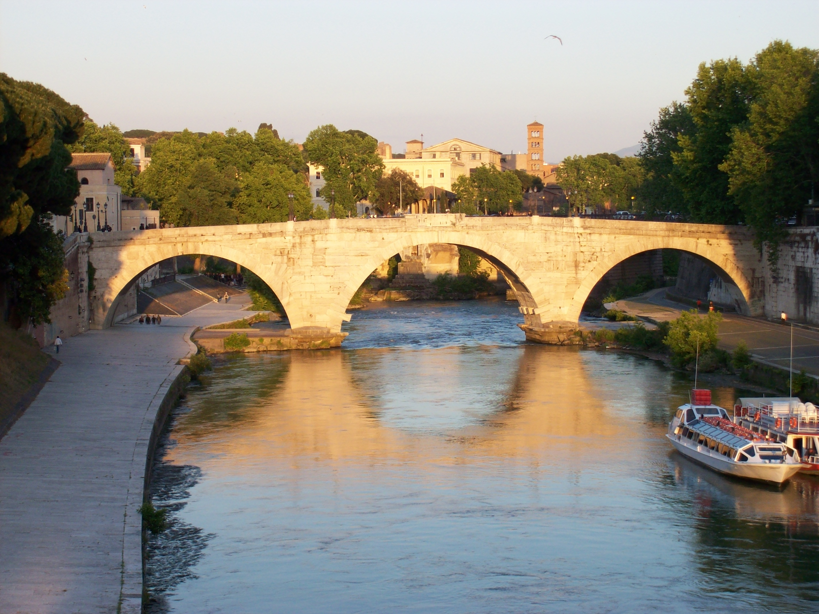 Ponte Cestio in Rome as seen from Ponte Garibaldi